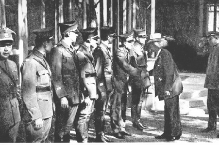 Caption: American Aviators in Poland - Premier Ignace Jan Paderewaki of Poland greeting in Paris members of tho Kościuszko's Squadron, a unit composed of American aviators, who have volunteered their services to Poland and are now wearing the uniform of officers In tho Polish Army.